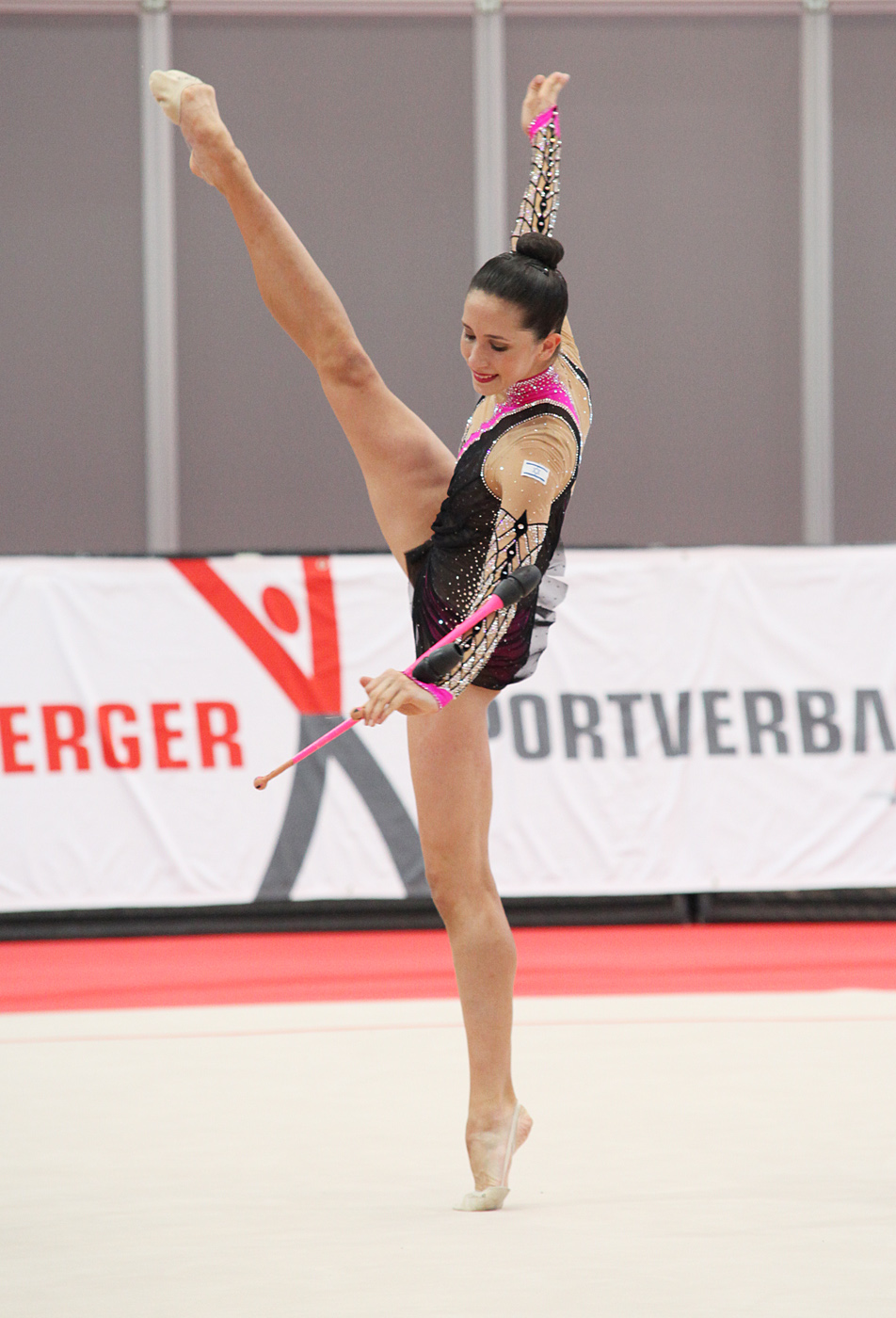 Grand Prix Rhythmic Gymnastics in Austria (Hard) 2012. Neta Rivkin ISR.